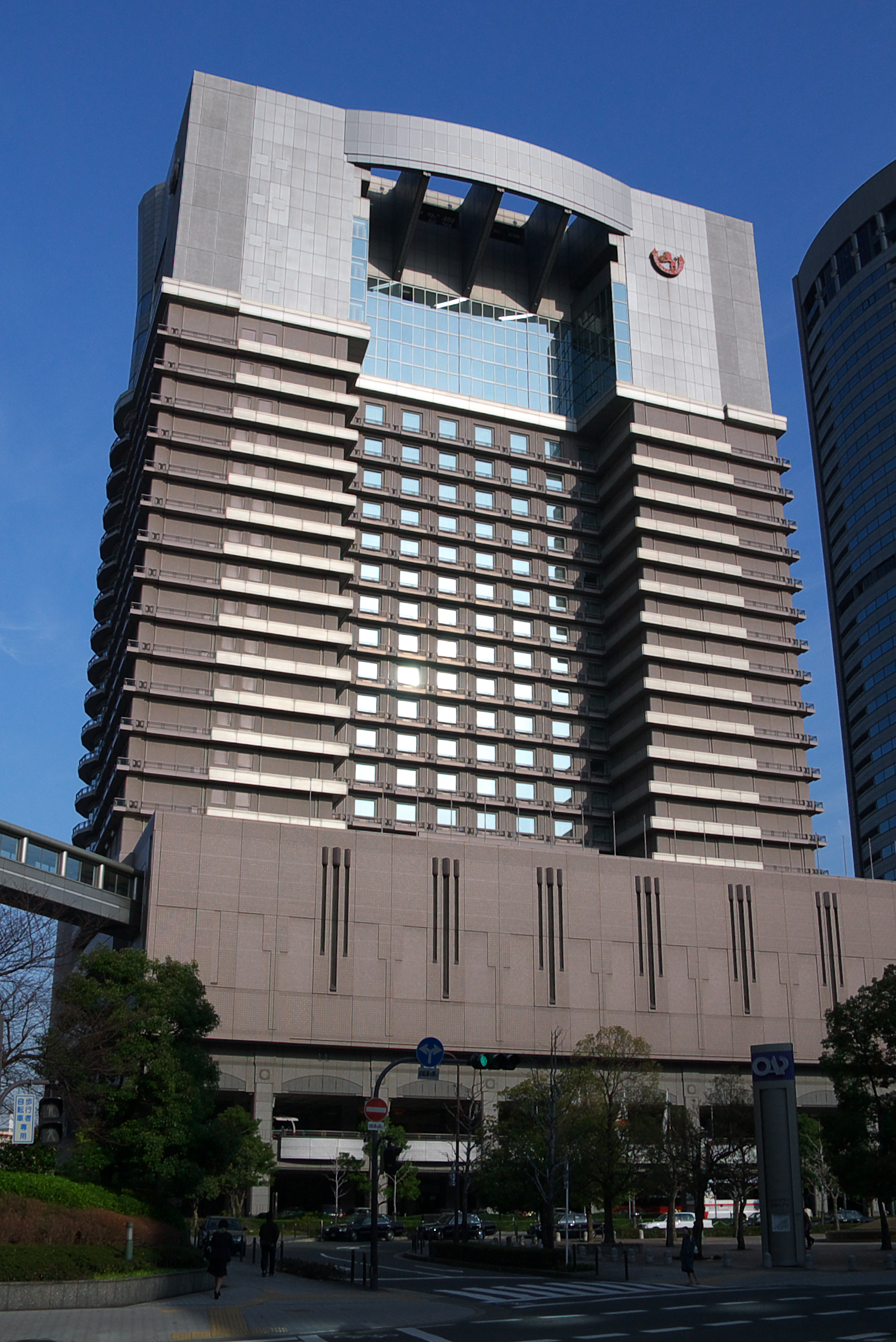 Photograph of the Imperial Hotel, Osaka in Osaka Amenity Park, Kita-ku, Osaka, Osaka Prefecture, Japan.